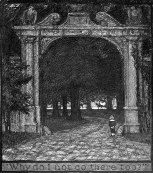 Illustration by B. Ostertag for Max Muller's "Memories". Copyright by A. C. McClurg & Co.